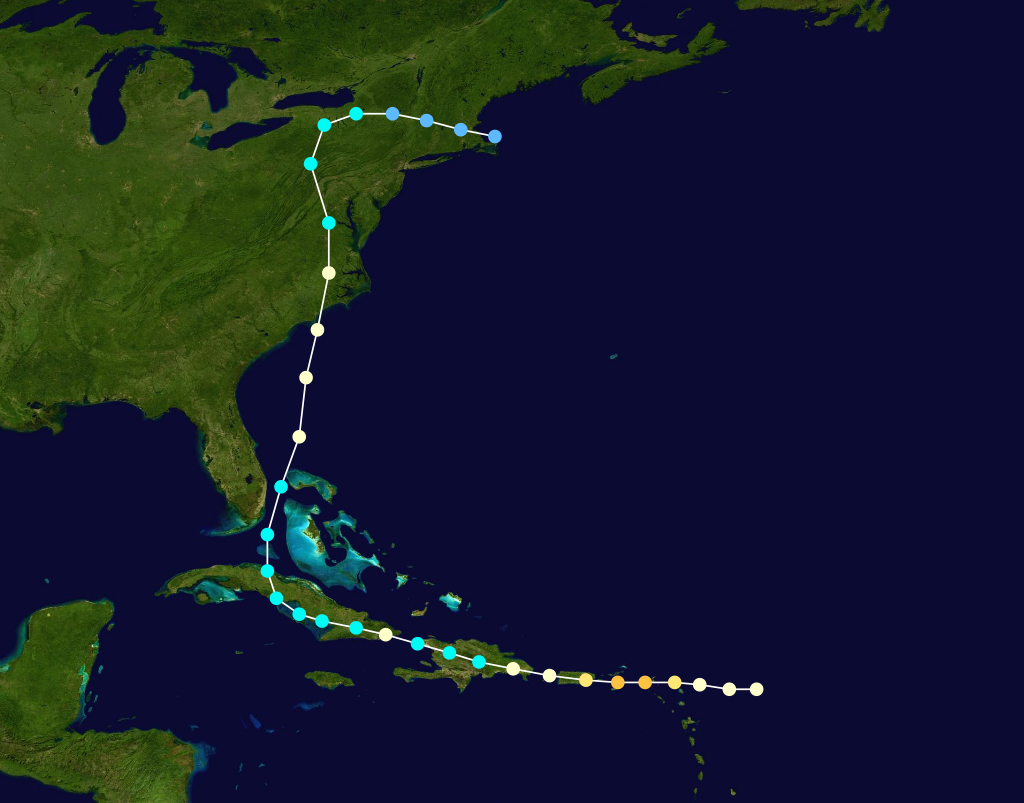 1876 Atlantic hurricane 2 track.png track. Uses the color scheme from the Saffir-Simpson Hurricane Scale.